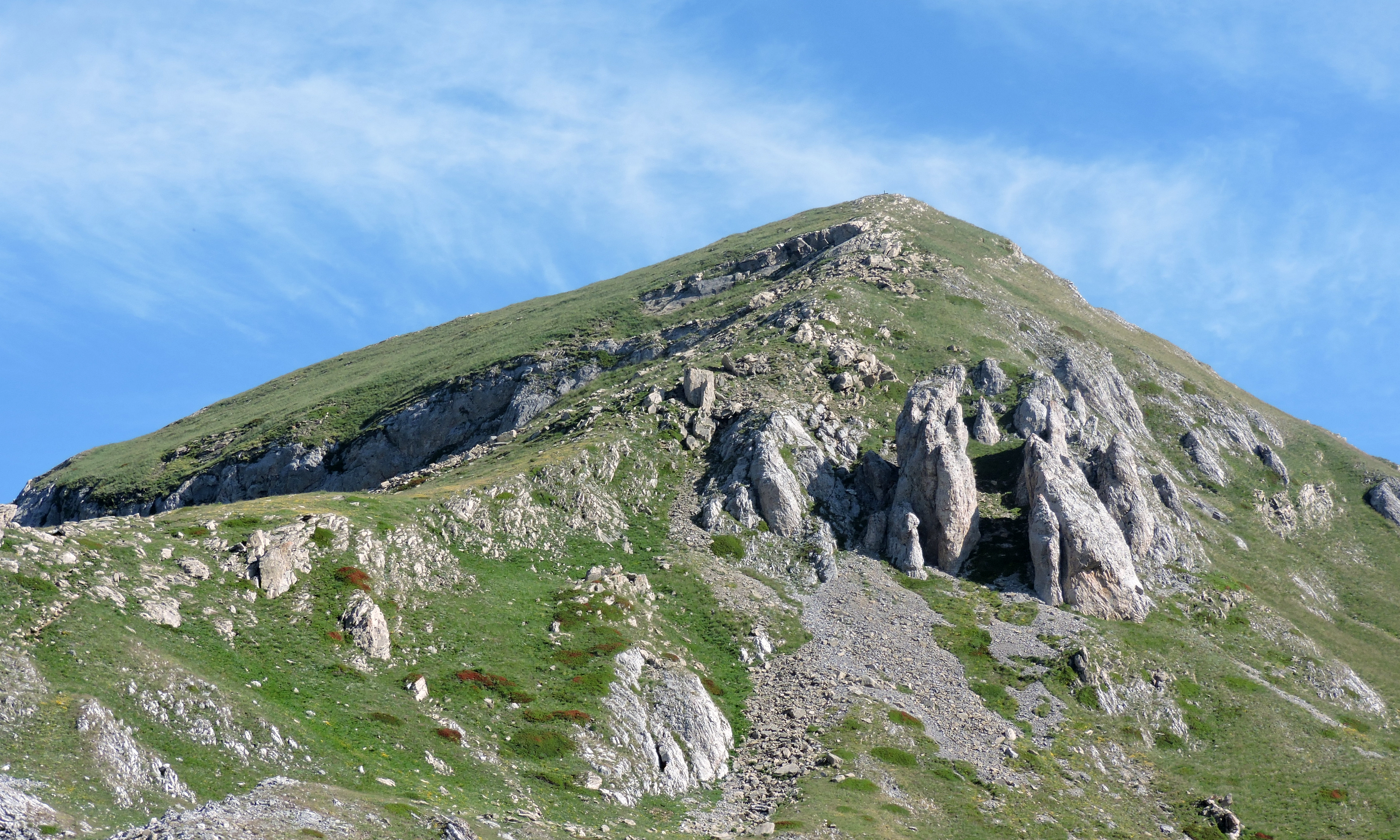 Mount Mondolè southern ridge (Ligurian Alps)